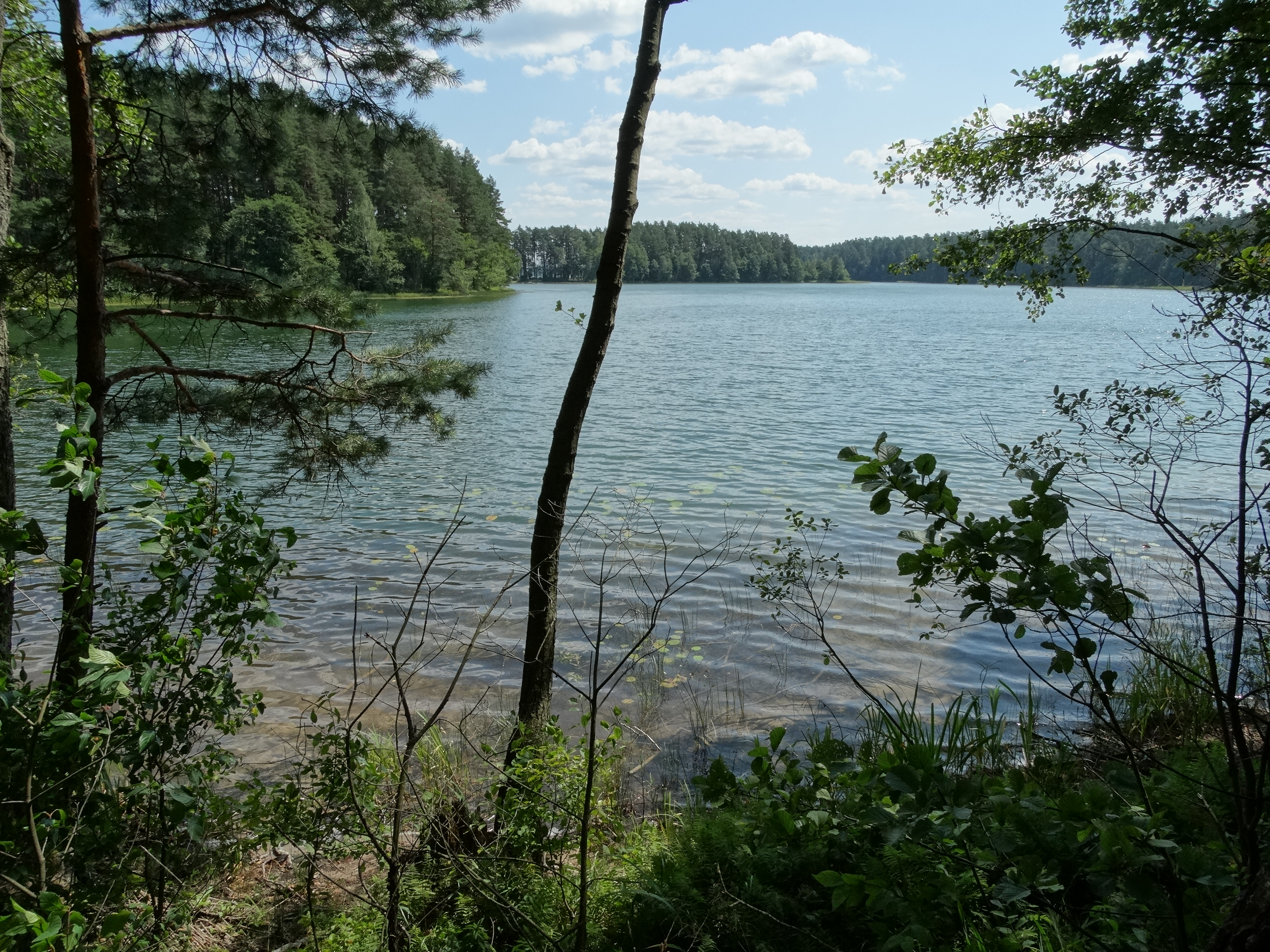 Juodieji Lakajai Lake, Molėtai district, Lithuania